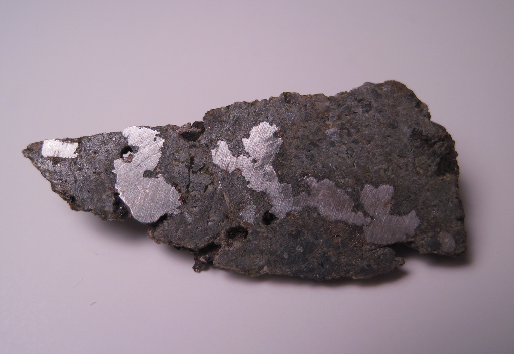 "Estherville" meteorite: a stony-iron mesosiderite. The fall took place on May 10, 1879 in Emmet County, Iowa.